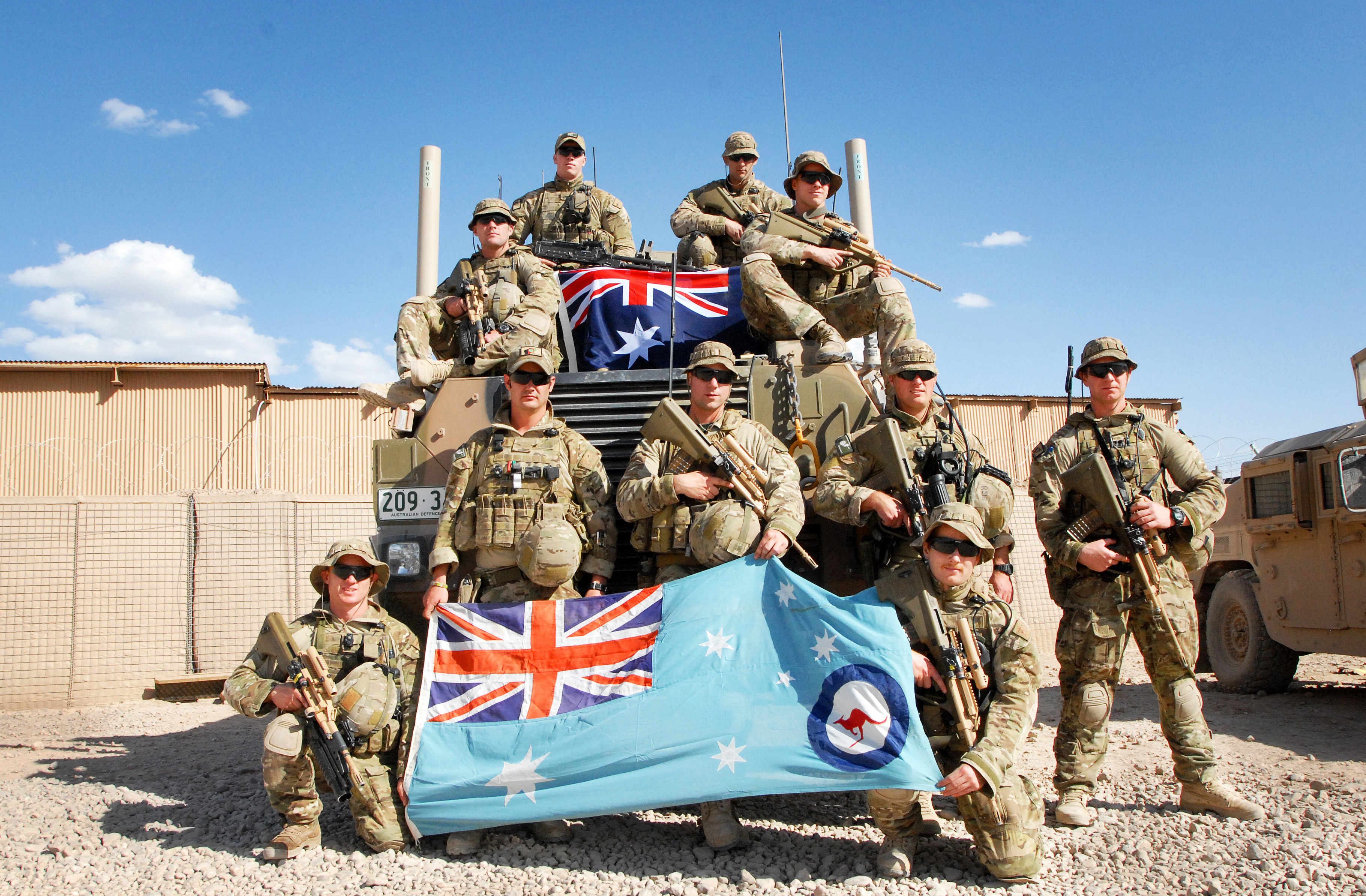 Royal Australian Air Force security force members pose with the RAAF ensign (bottom) and Commonwealth of Australia flag at Multinational Base Tarin Kowt in Uruzgan province, Afghanistan, March 31, 2013. This marked the 92nd birthday of the RAAF, which was founded March 31, 1921.